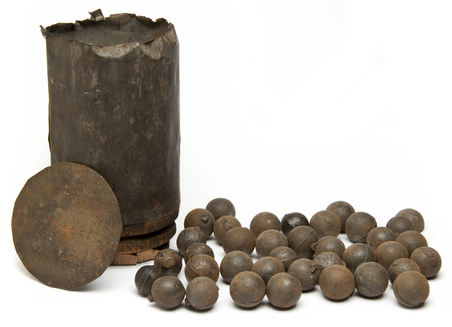 Artillery shot-canister for a 12-pounder cannon. The canister has a wood sabot, iron dividing plate, and thirty-seven cast-iron grape shot. The grapeshot all have mold-seam lines, and some have sprue projections. The cylindrical canister has a soldered seam up one side and is nailed to the sabot, which is cut with two encircling grooves. A second plate inside the canister is loose. An iron disc divider is also present.